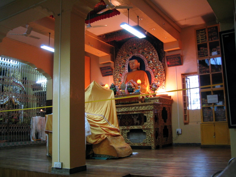 The main teaching room of the Dalai Lama Tenzin Gyatso in McLeod Ganj, Dharamsala, India.